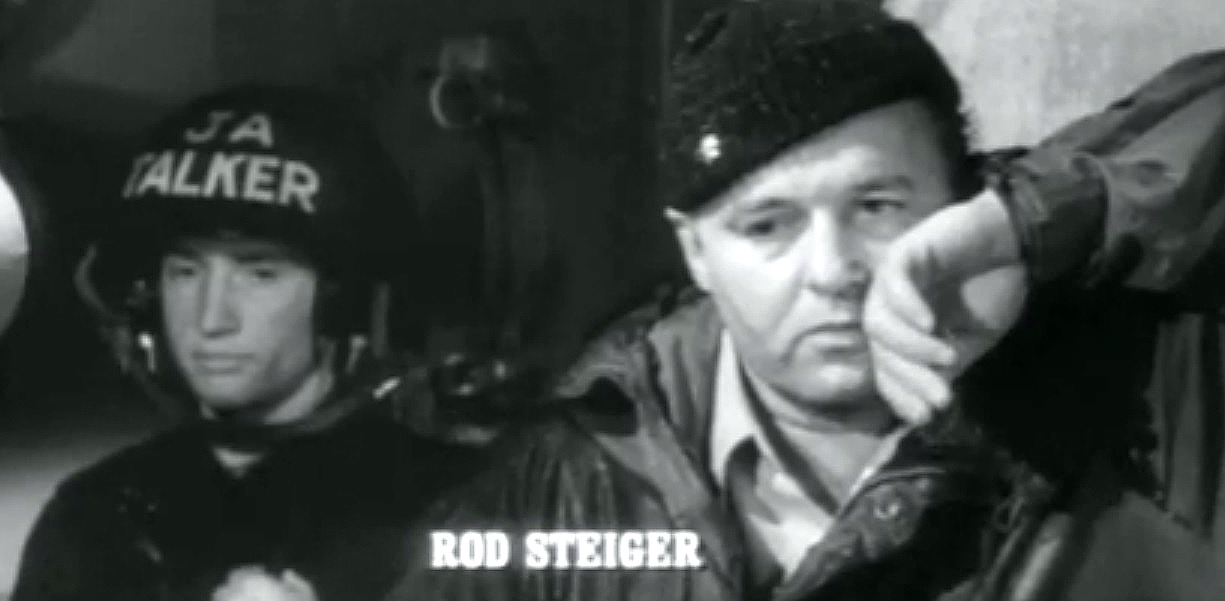 Rod Steiger in The Longest Day from the trailer for the film.